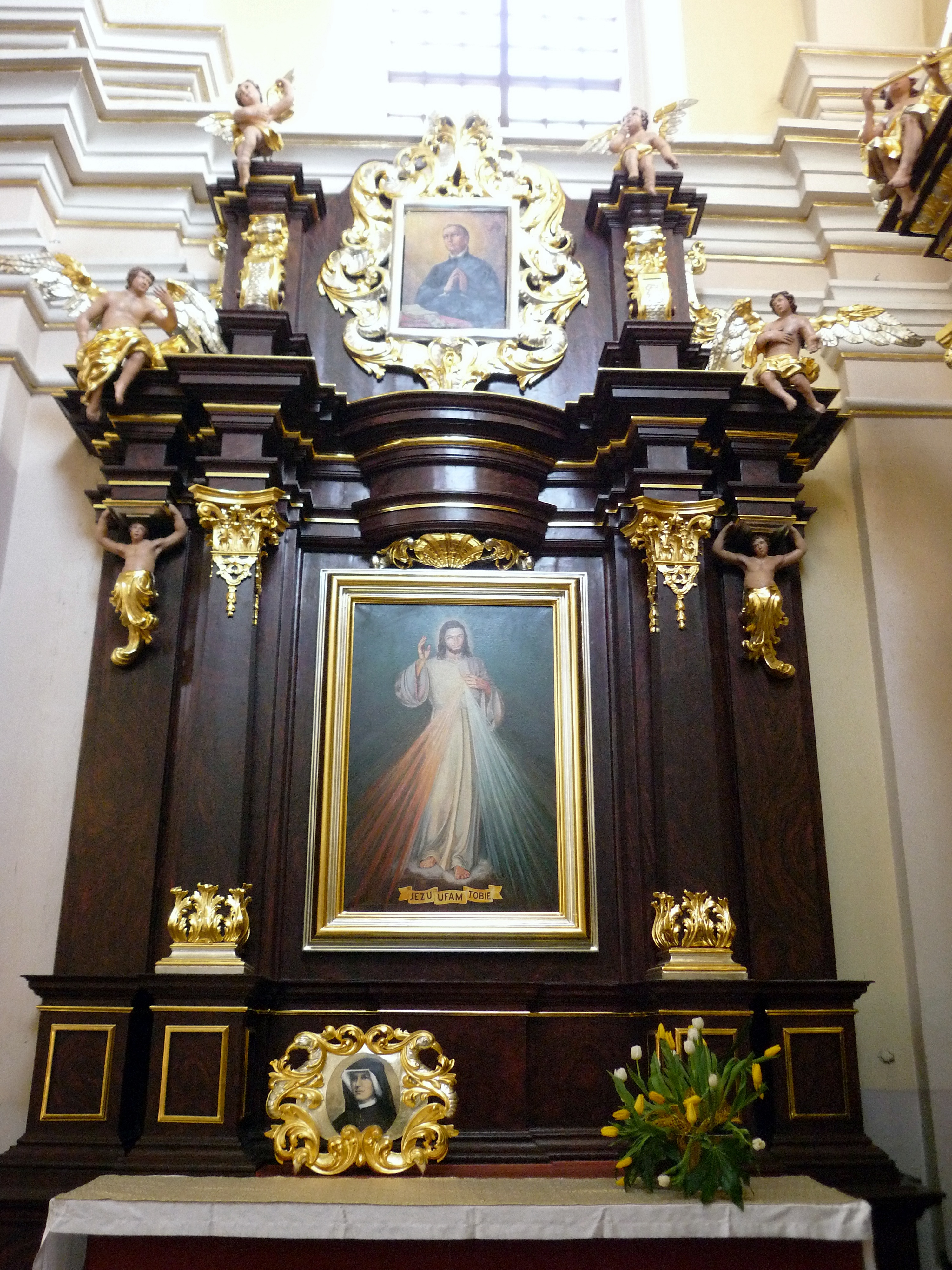 Łódź-Łagiewniki (Poland), St. Anthony of Padua Church - side altar of Divine Mercy